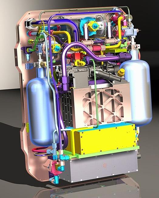 Rendering of the prototype Portable Life Support System for advanced spacesuit.